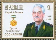 Stamp of Abkhazia: Sultan Sosnaliyev